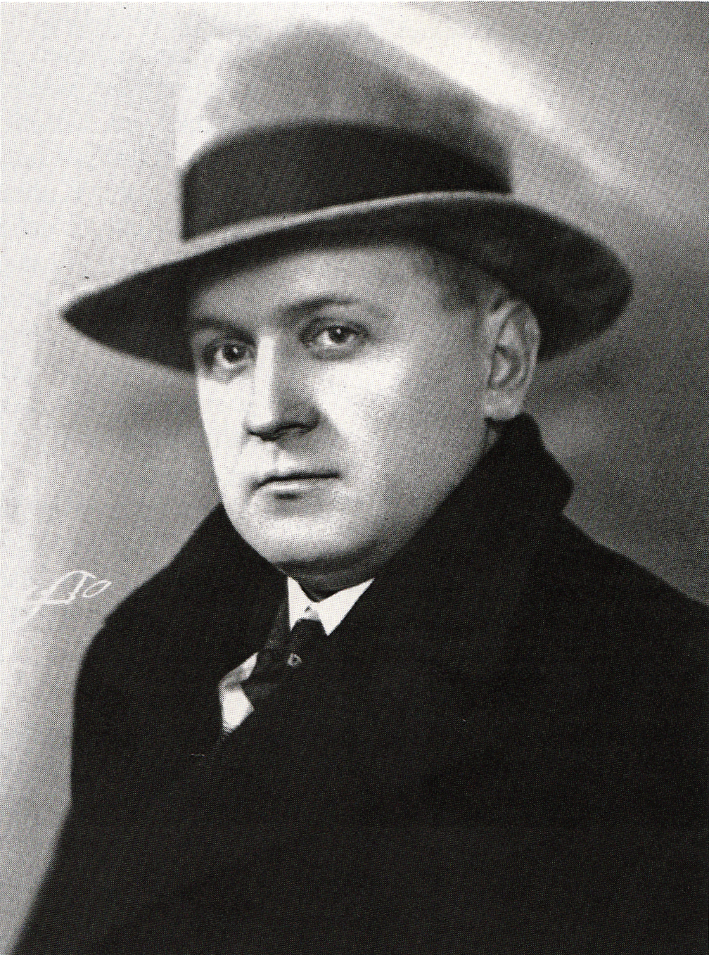 Finnish singer Matti Jurva